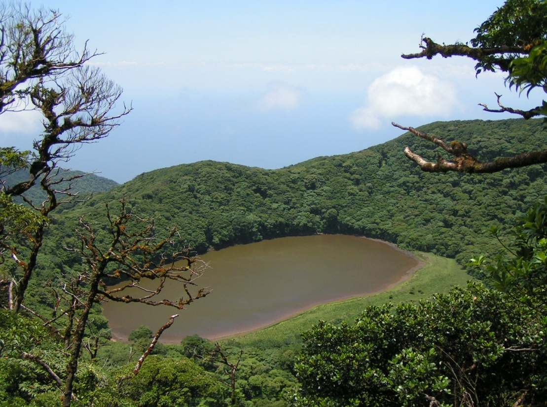 Laguna de Maderas (crater lake of Maderas Volcano, Ometepe Island)